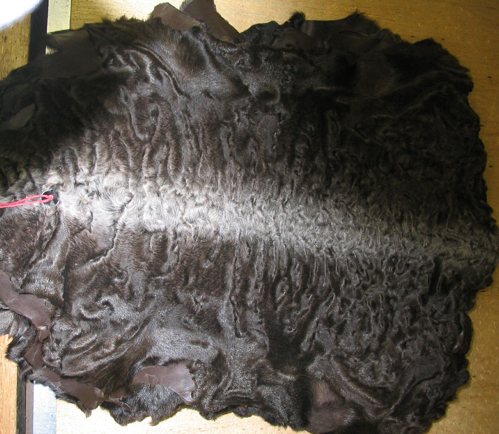 Persian lamb; karakul skin, coloured